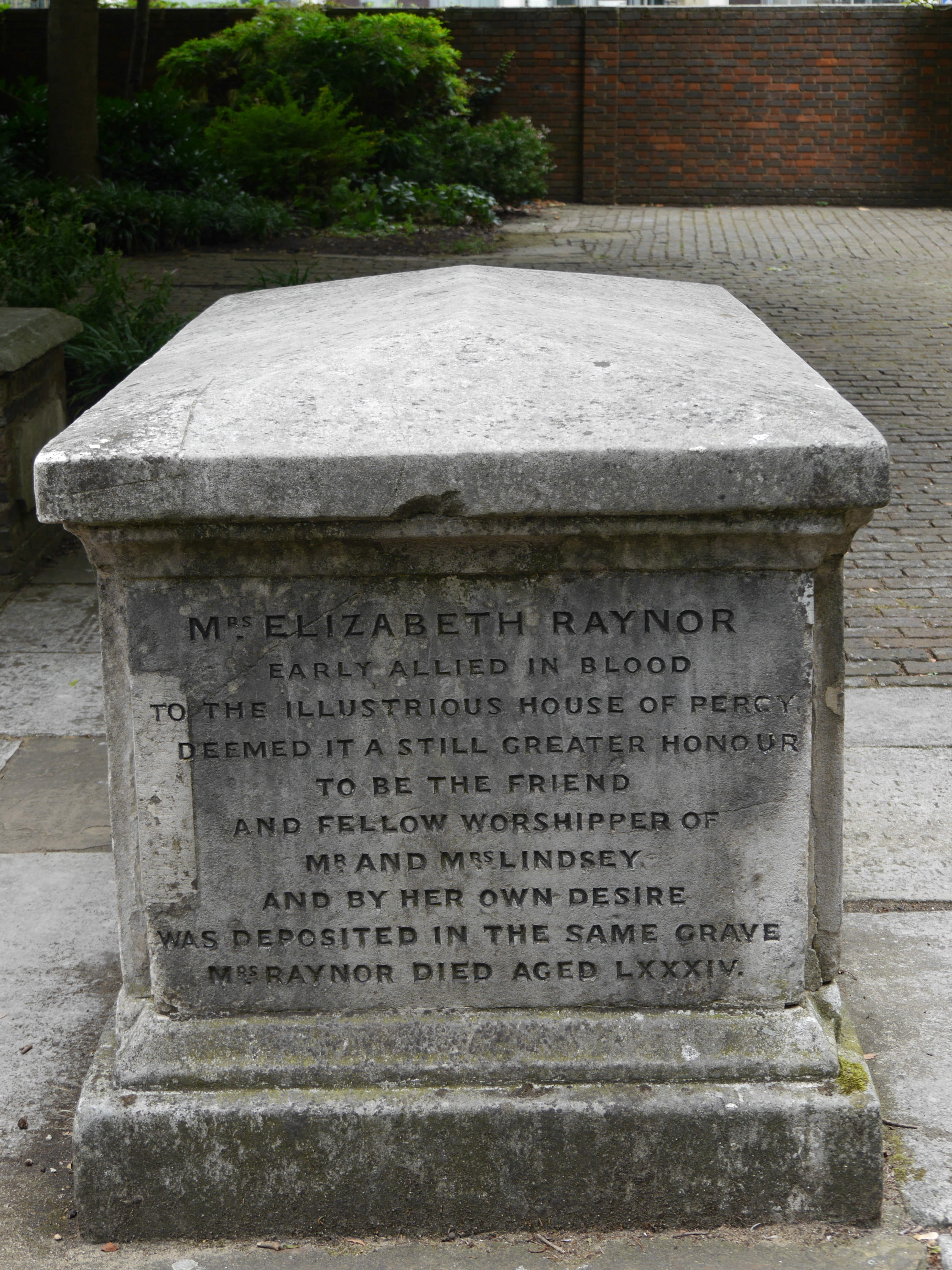 Bunhill Fields, London